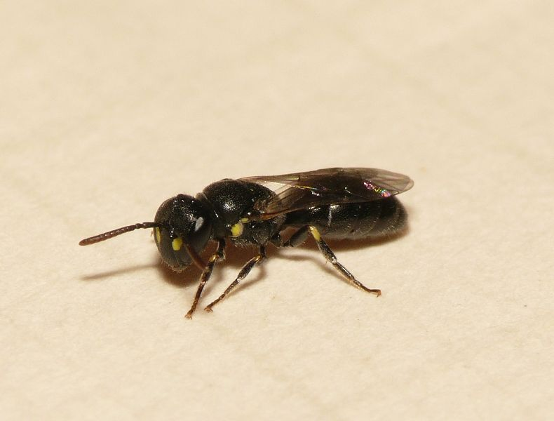 Hylaeus pictipes. Location: The Netherlands - Gelderland - Rhenen - Blauwe Kamer